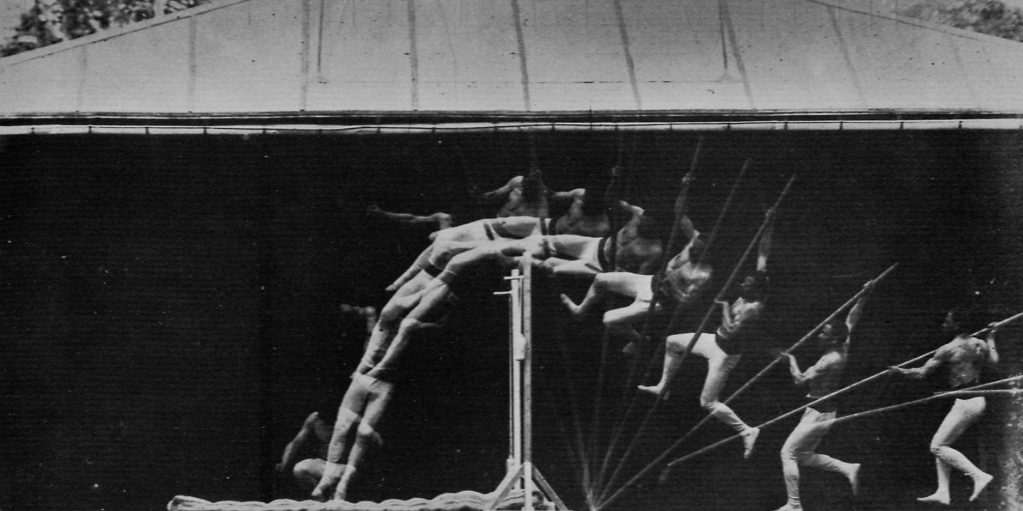 Vault over bar